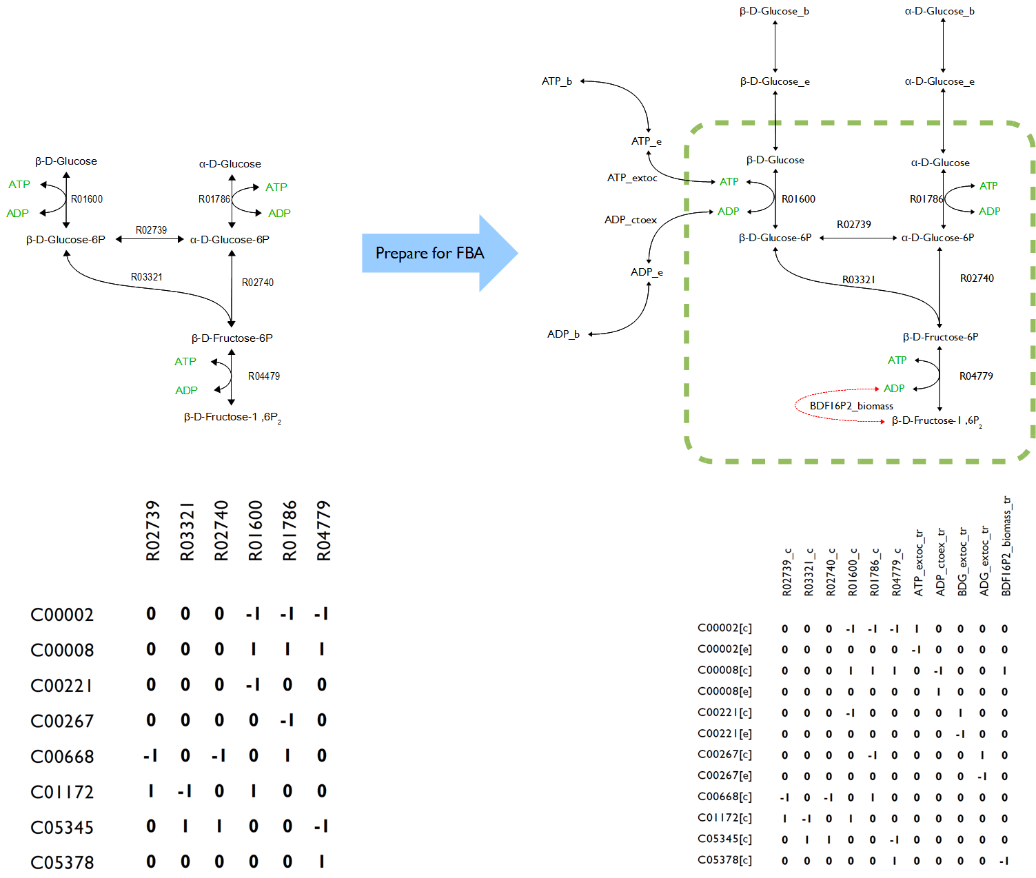 A representation of the metabolic network of the top section of glycolysis. The stoichiometric matrix of this network, both before and after addition of nutrient import and biomass function, are shown below the image.